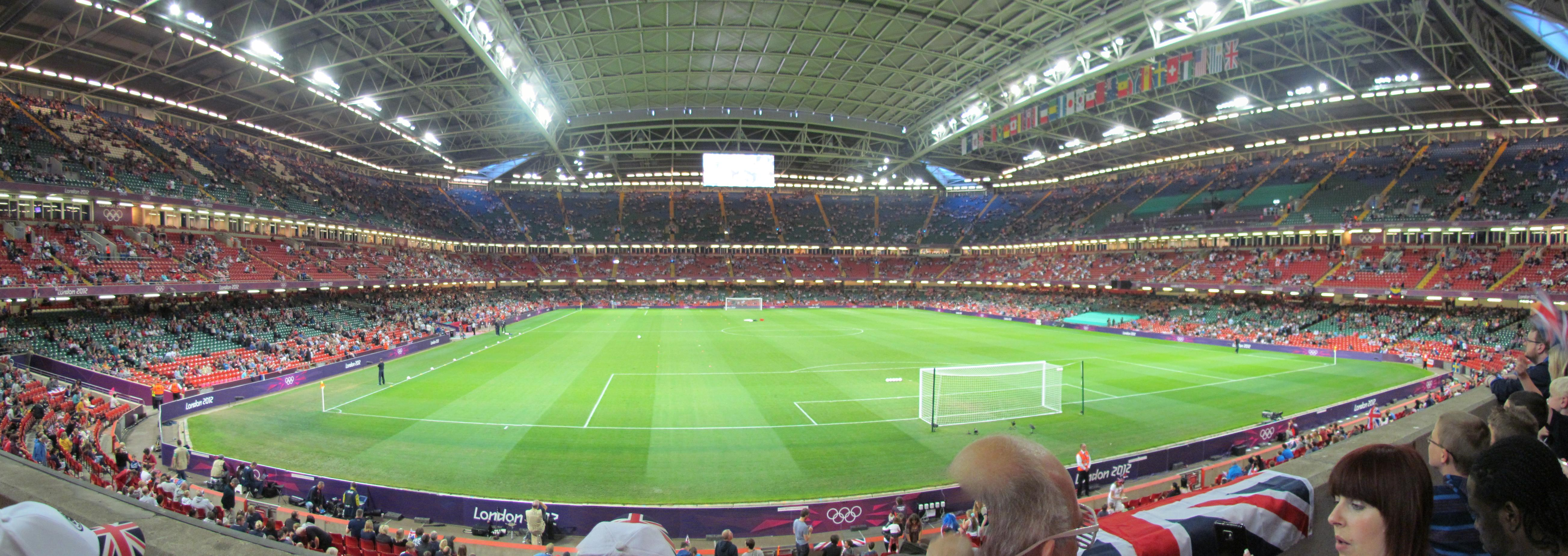 Photo from my seat in the Millennium Stadium on Saturday night, just before Team GB lost to the Republic of Korea.